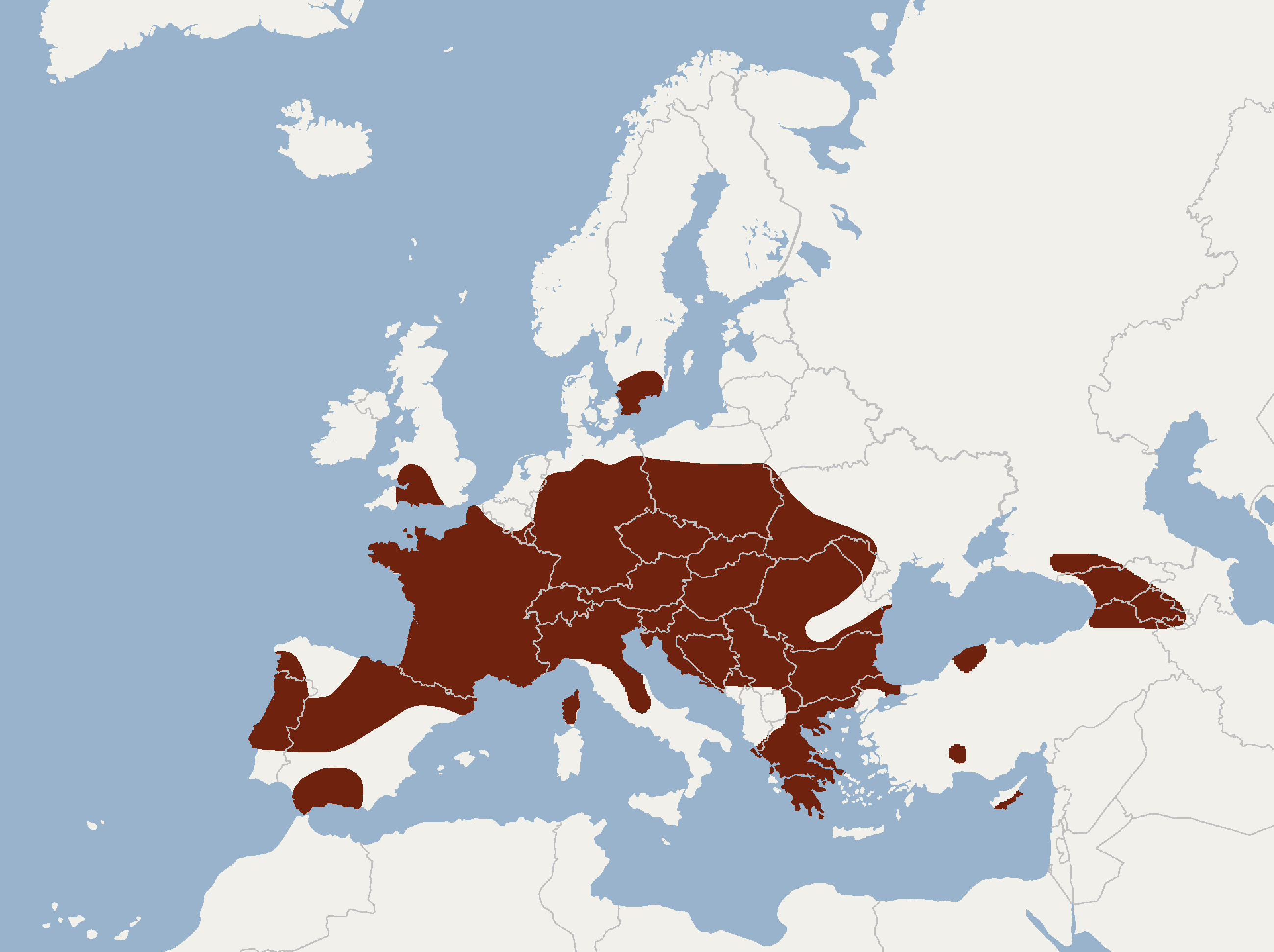 According to IUCNRedlist